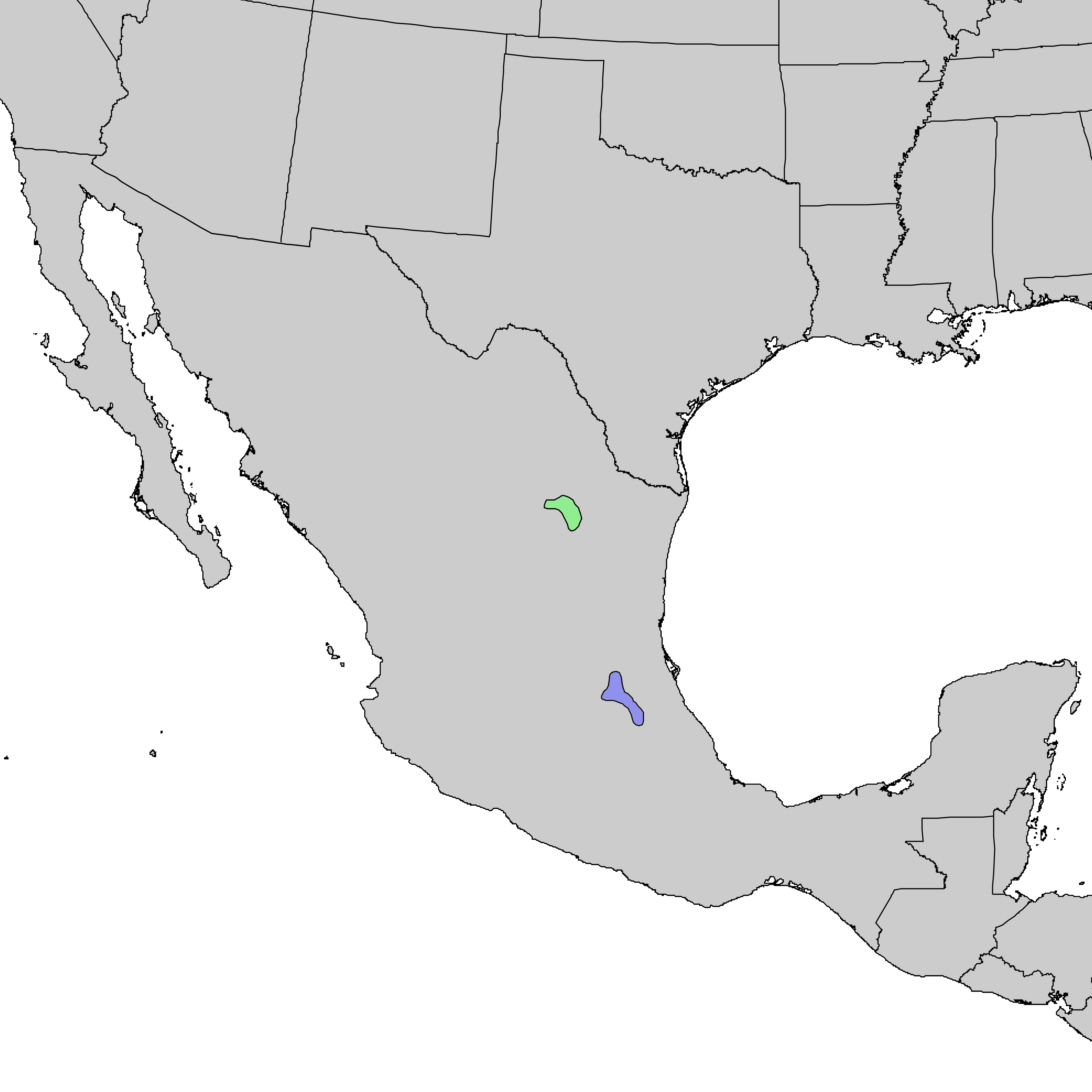 Natural distribution map for Pinus greggii Green: Pinus greggii var. greggii Blue: Pinus greggii var. australis